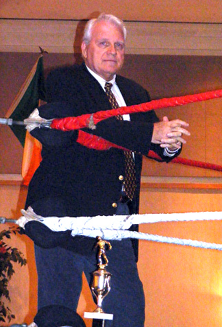 JJ Dillon at the Walter Killer Kowalski Memorial Show in Malden, MA on October 26, 2008